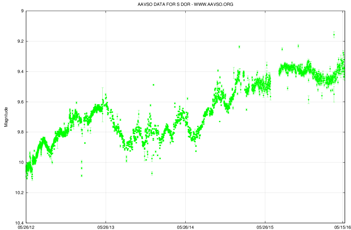 Photoelectric V-band light curve for S Doradus from 2012 - 2016.